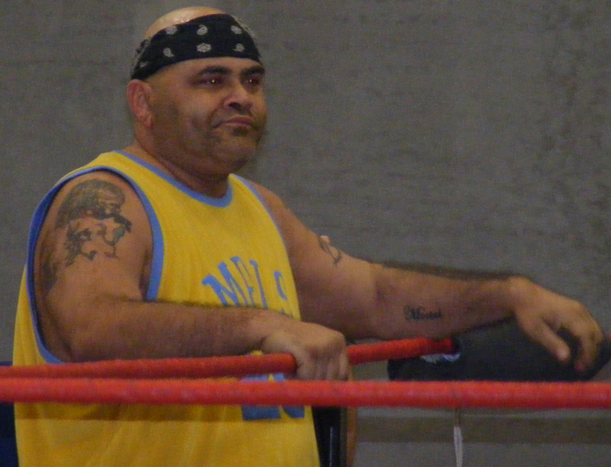 Professional wrestler Konnan in July 2011.